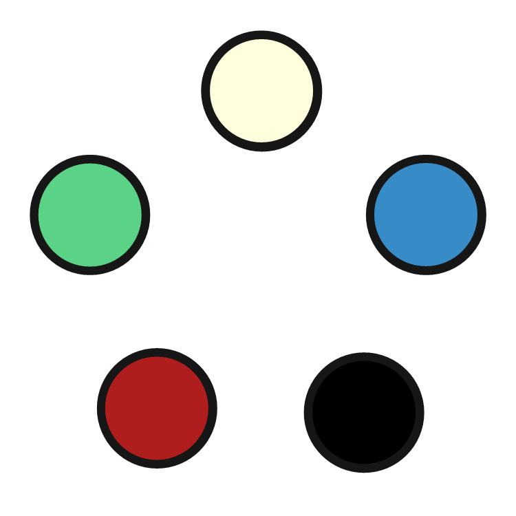 Pentagon of the colors of Magic: The Gathering.